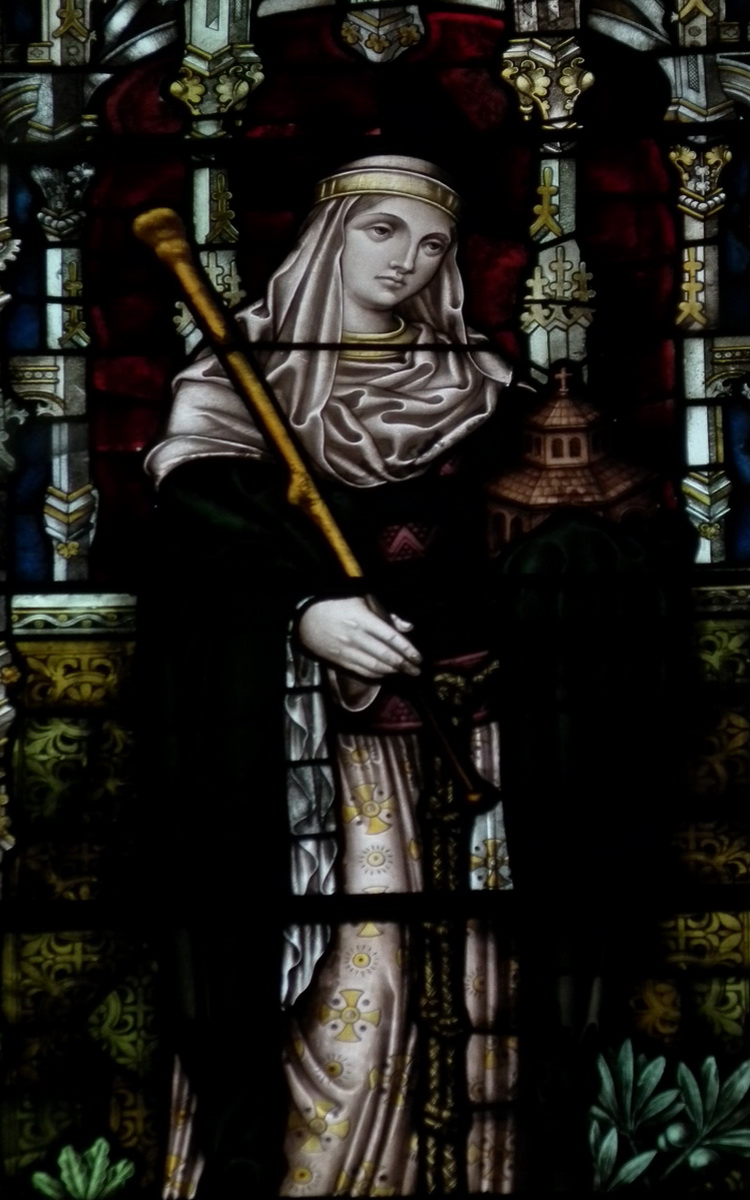 Stained glass windows in the Chapter house, Canterbury Cathedral, Canterbury, England